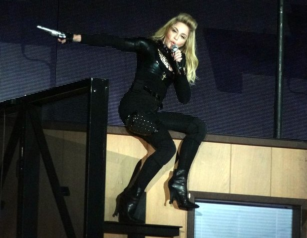 Madonna live at the o2 World, Berlin on 30 June 2012 during her MDNA Tour.